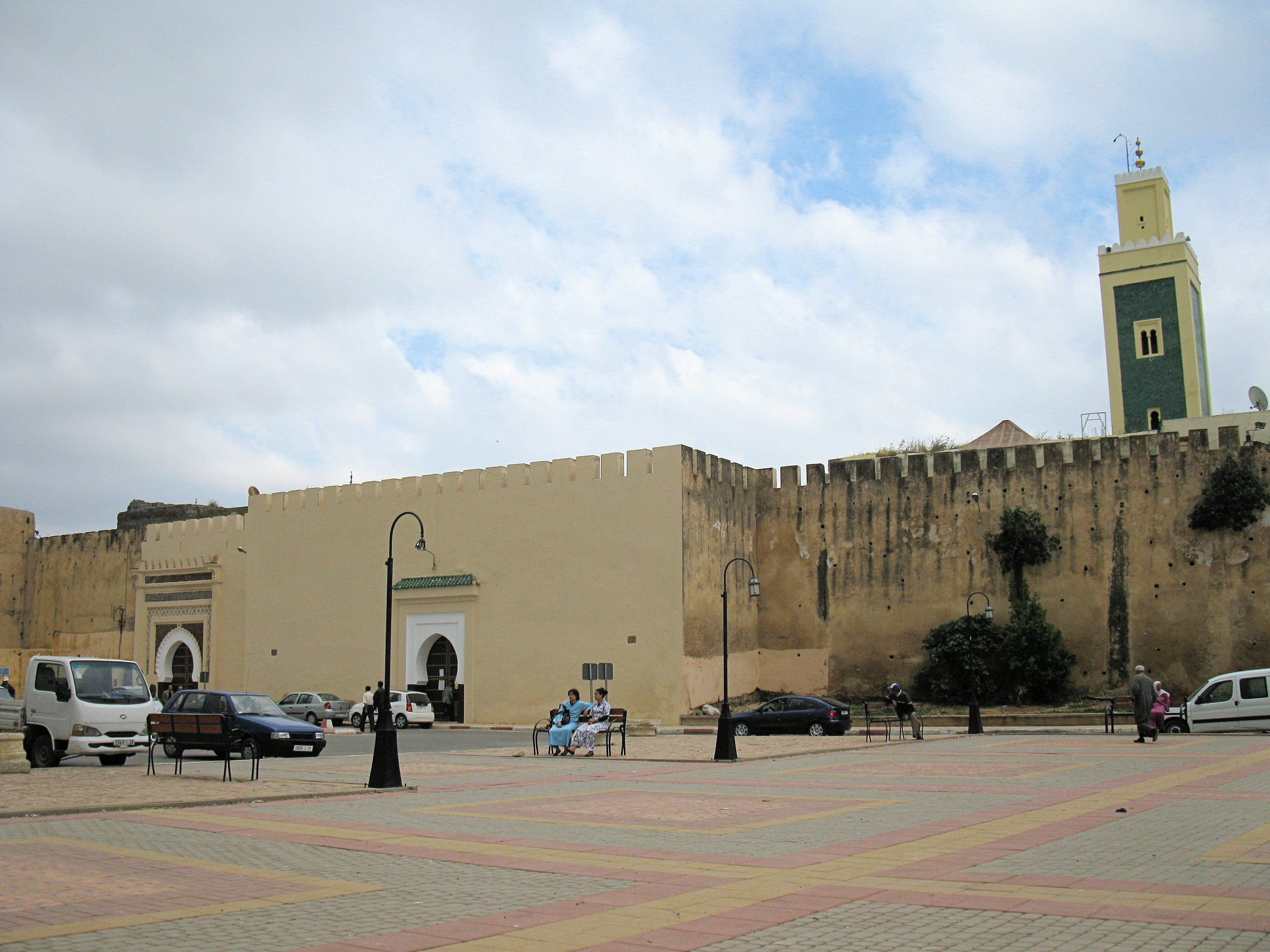 The two gates (seen on the left) leading to the outer courtyard and mechouar of the Lalla Aouda Mosque, whose minaret is seen on the right. The right gate is fairly plain but the left gate is more ornamental (though this isn't a great picture of it).